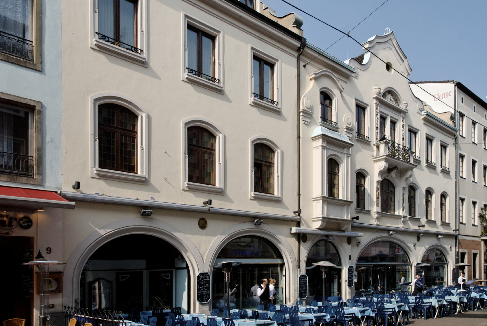 House Berger Straße 3 in Düsseldorf-Altstadt, Germany